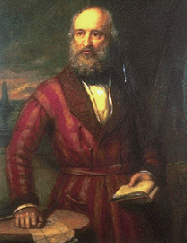 Self-portrait aged 70